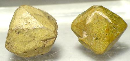 Betafite Locality: Vakinankaratra Region, Antananarivo Province, Madagascar (Locality at ) A excellent 2-piece deal of two complete, well-formed and very sharp light-brown highly modified cubic betafite crystals from Madagascar. Old and choice crystals. 13 x 13 x 7 mm (largest).